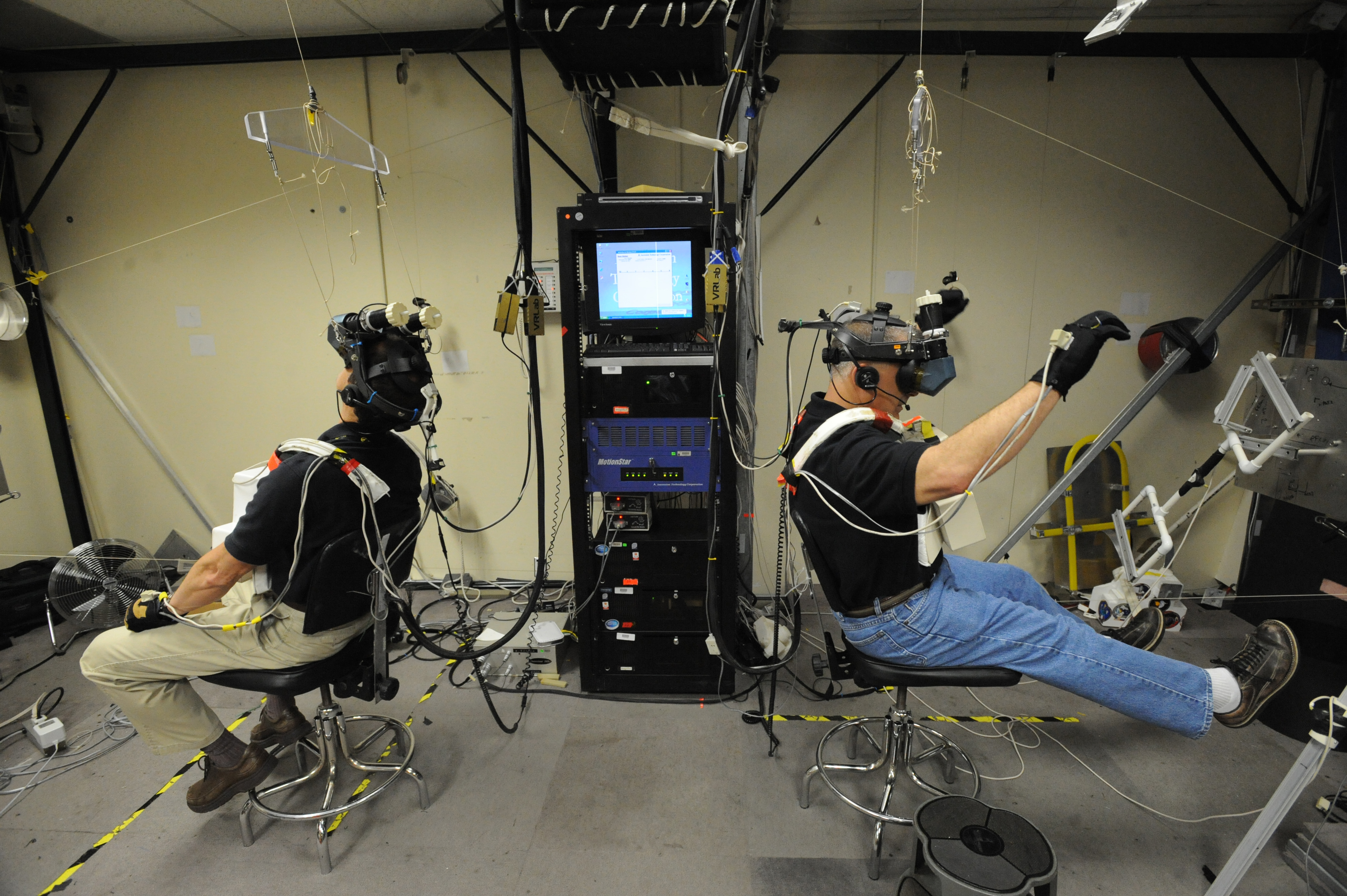 HOUSTON (March 24, 2009) Astronauts Tom Marshburn, left, and Dave Wolf train for a spacewalk in the Integrated EVA/RMS Virtual Reality Simulator Facility at Johnson Space Center. Marshburn and Wolf are members of STS-127 and will take a space flight with Lt. Cmdr. Chris Cassidy in an upcoming mission to the International Space Station in June. (U.S. Navy photo by Mass Communication Specialist 2nd Class Dominique M. Lasco/Released)